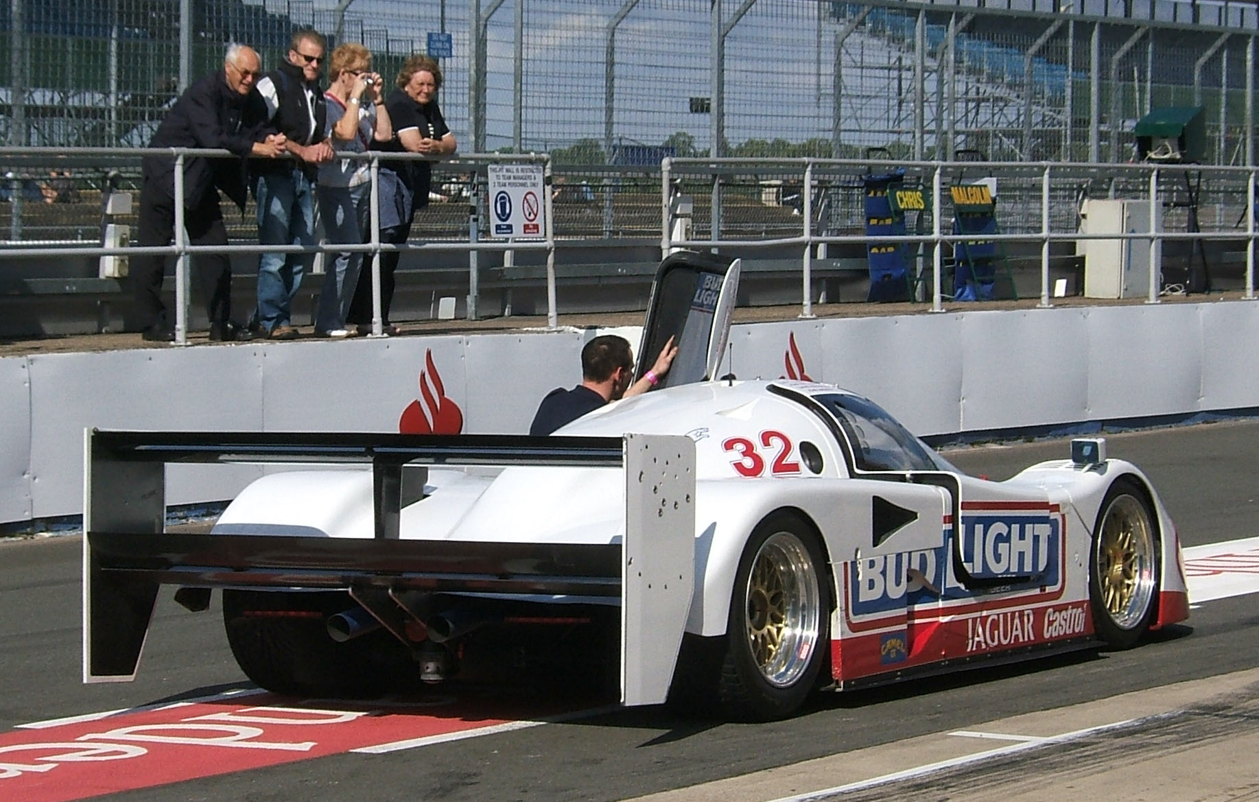 Jaguar XJR-12D on the way to scrutineering in the pitlane at Silverstone, Silverstone Classic race meeting, July 2007.